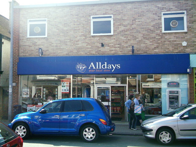 AllDays, High Street, Lee-on-Solent This was formerly the Co-operative, the first supermarket type shop in Lee, followed by Liptons which was opposite. The conversion occurred sometime around 1962, though I may be wrong, so maybe someone will put me right.